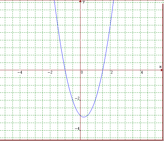 Grafic of Polinomial Function